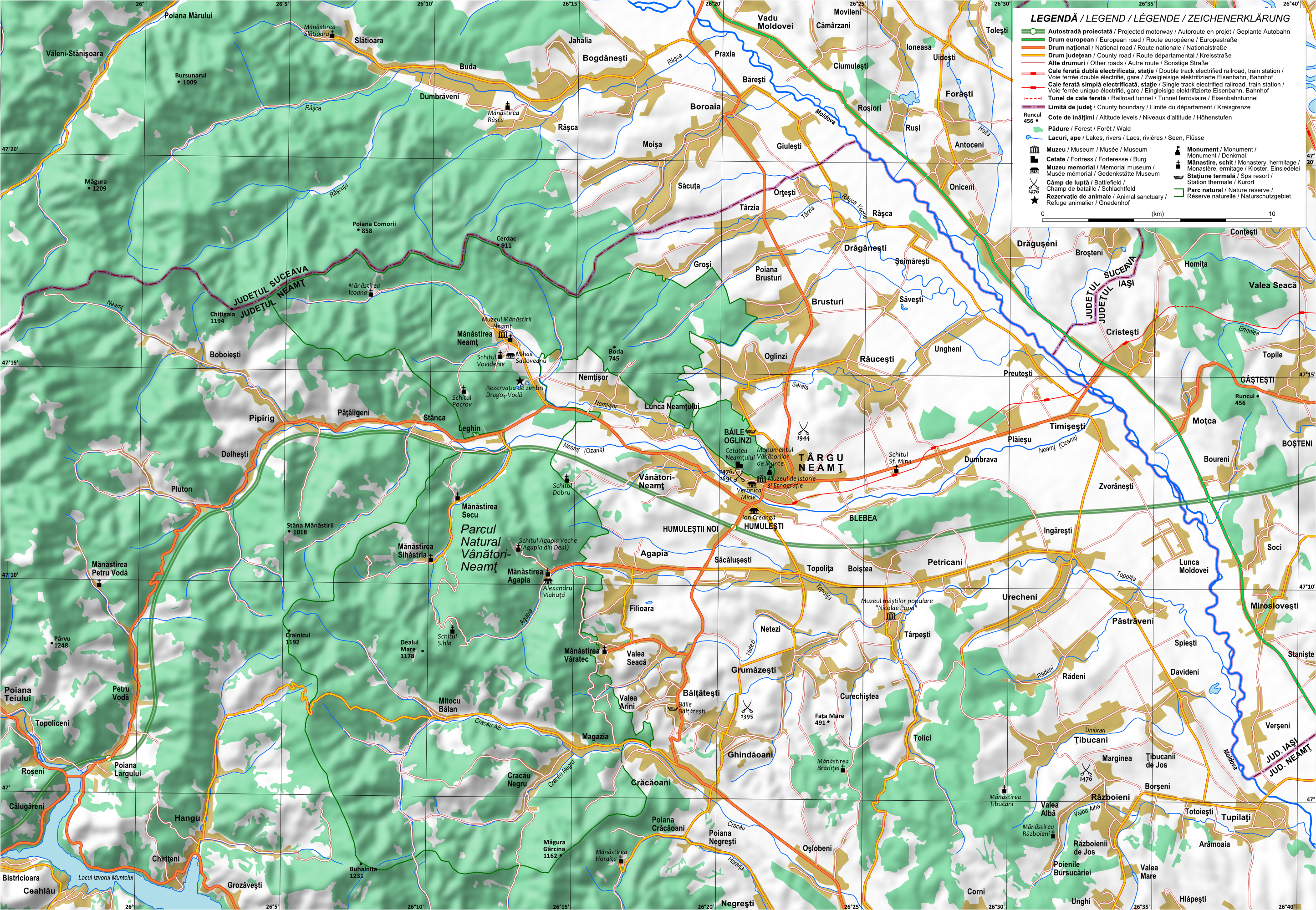 Topographic map of the area surrounding the town of Targu Neamt, Neamt County, Romania